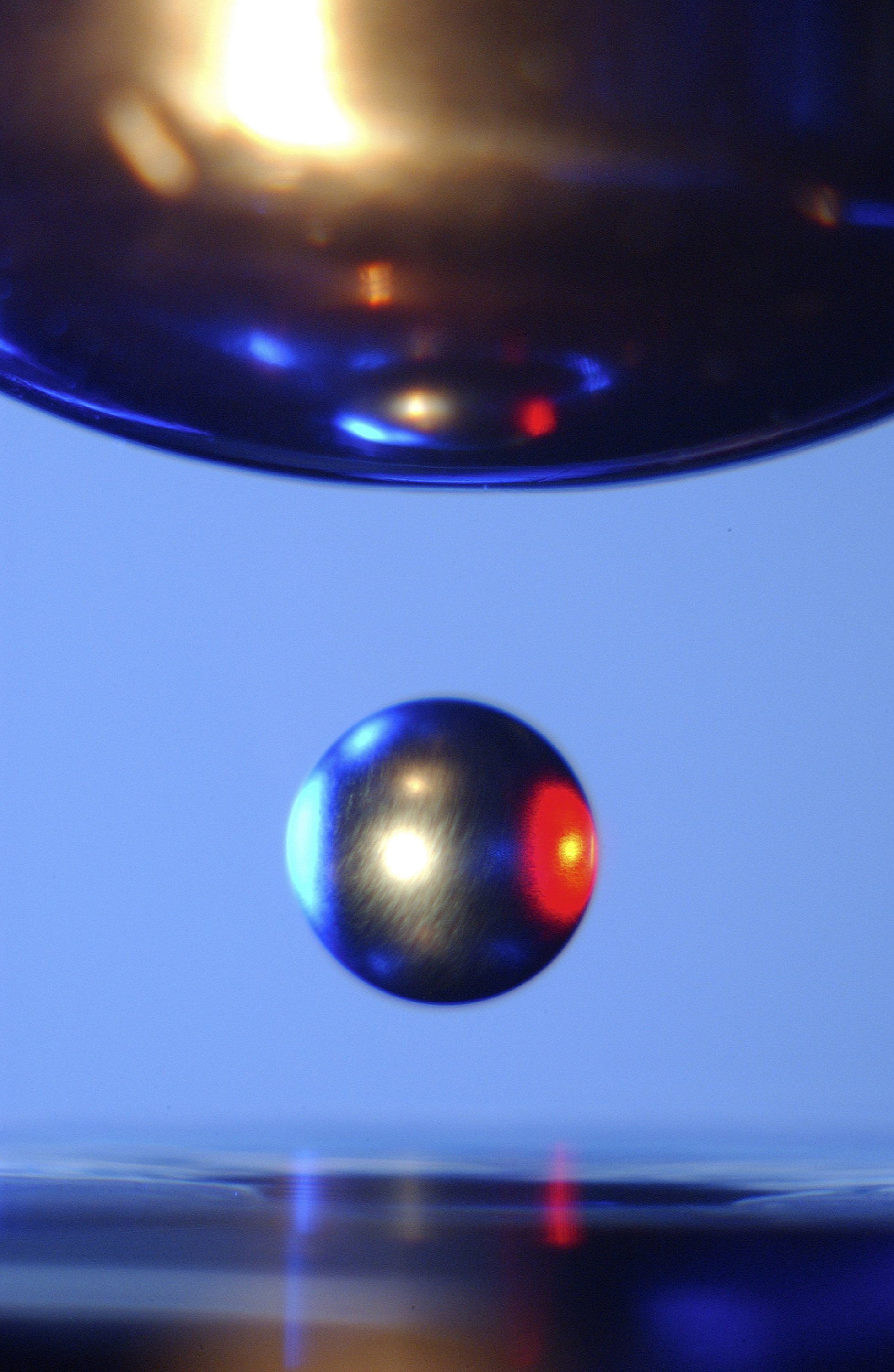 This is a close-up of a sample of titanium-zirconium-nickel alloy inside the Electrostatic Levitator (ESL) vacuum chamber at NASA's Marshall Space Flight Center (MSFC). The ESL uses static electricity to suspend an object (about 3-4 mm in diameter) inside a vacuum chamber allowing scientists to record a wide range of physical properties without the sample contracting the container or any instruments, conditions that would alter the readings. Once inside the chamber, a laser heats the sample until it melts. The laser is then turned off and the sample cools, changing from a liquid drop to a solid sphere. Since 1977, the ESL has been used at MSFC to study the characteristics of new metals, ceramics, and glass compounds. Materials created as a result of these tests include new optical materials, special metallic glasses, and spacecraft components.